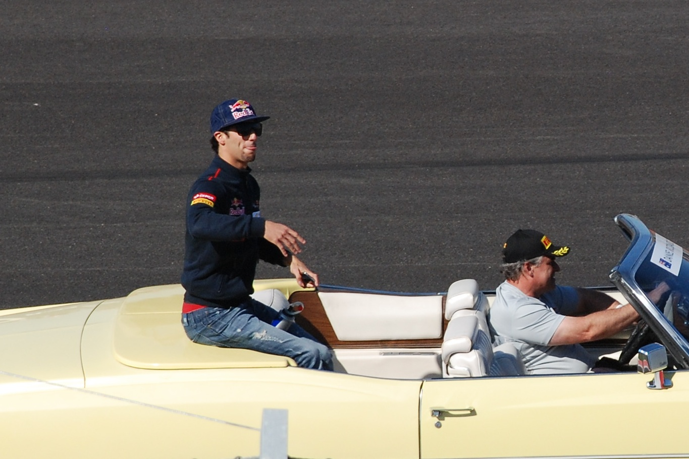 Daniel Ricciardo, United States Grand Prix, Austin 2012